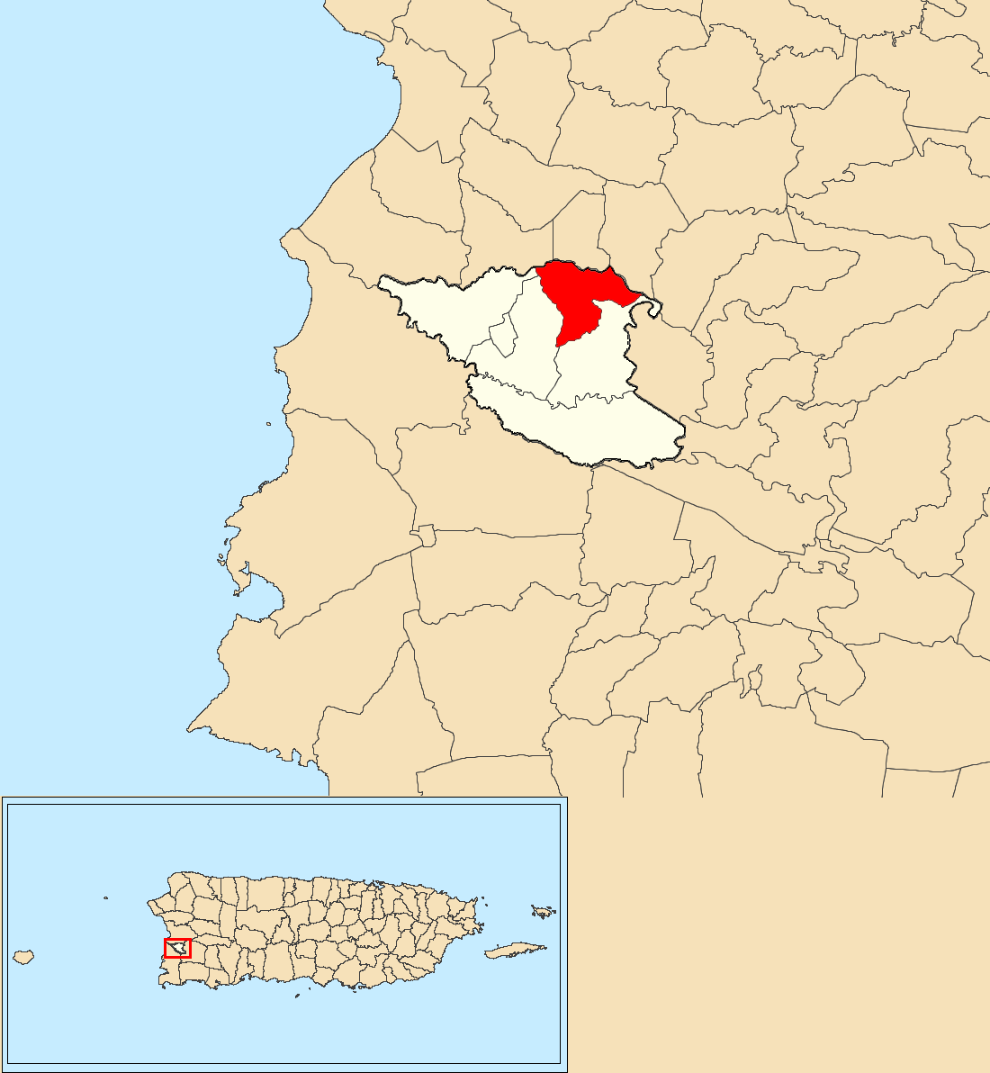 Jagüitas, Hormigueros, Puerto Rico locator map